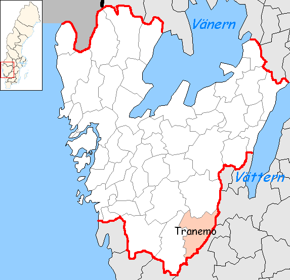 Tranemo Municipality in Västra Götaland County Designed by me. Mere outlines are a PD source from